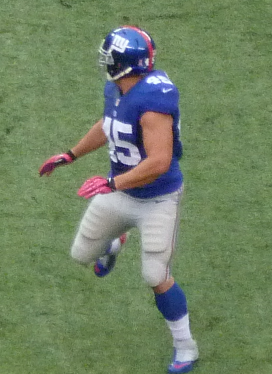 Eli Manning back to pass against the Browns, 2012